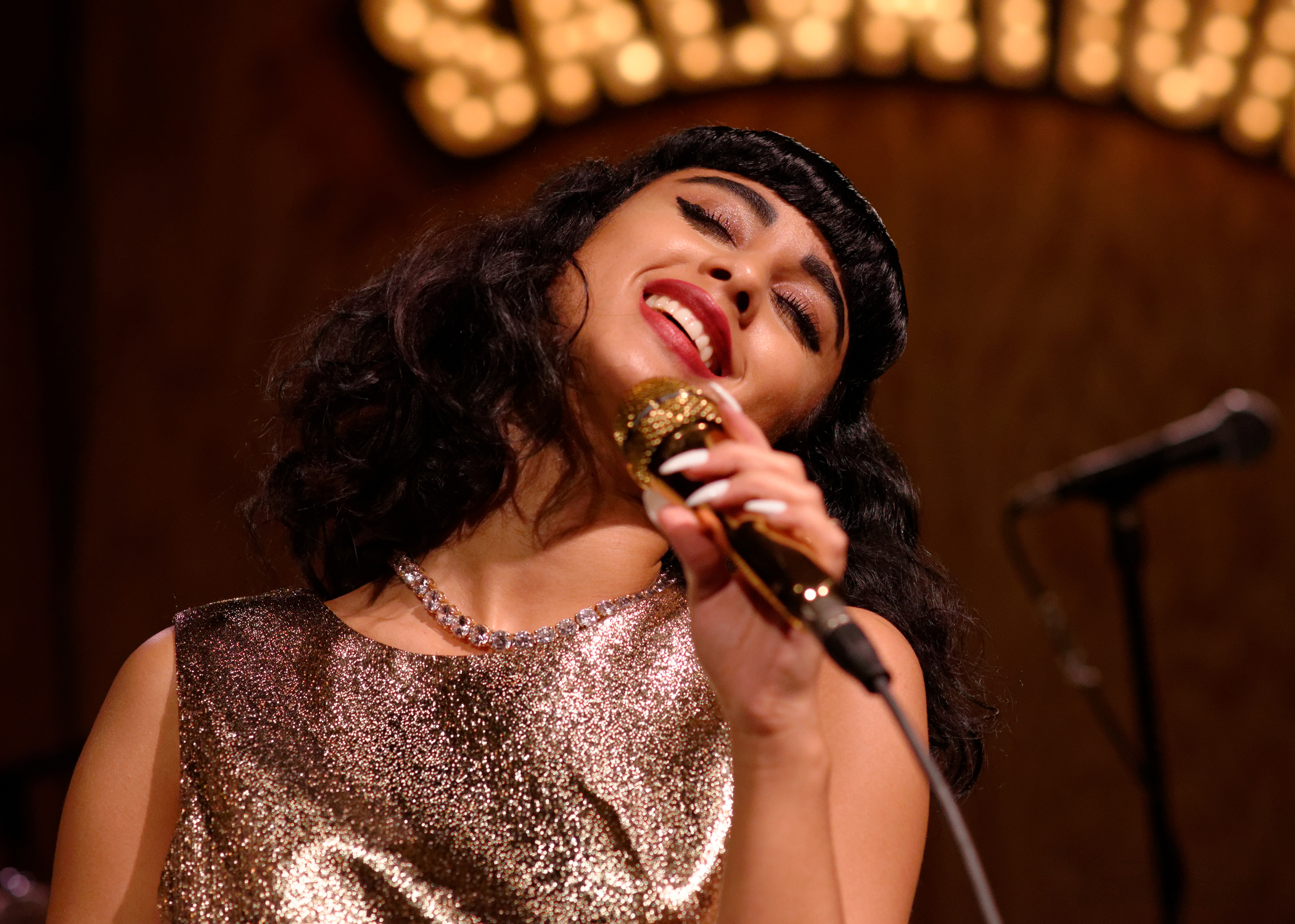 Natalia Kills performing live at the Bootleg Bar in Los Angeles California on Sunday February 16th, 2014. Part of the #THENEWNEW artist residency presented by Filter Magazine and Revolve Clothing.